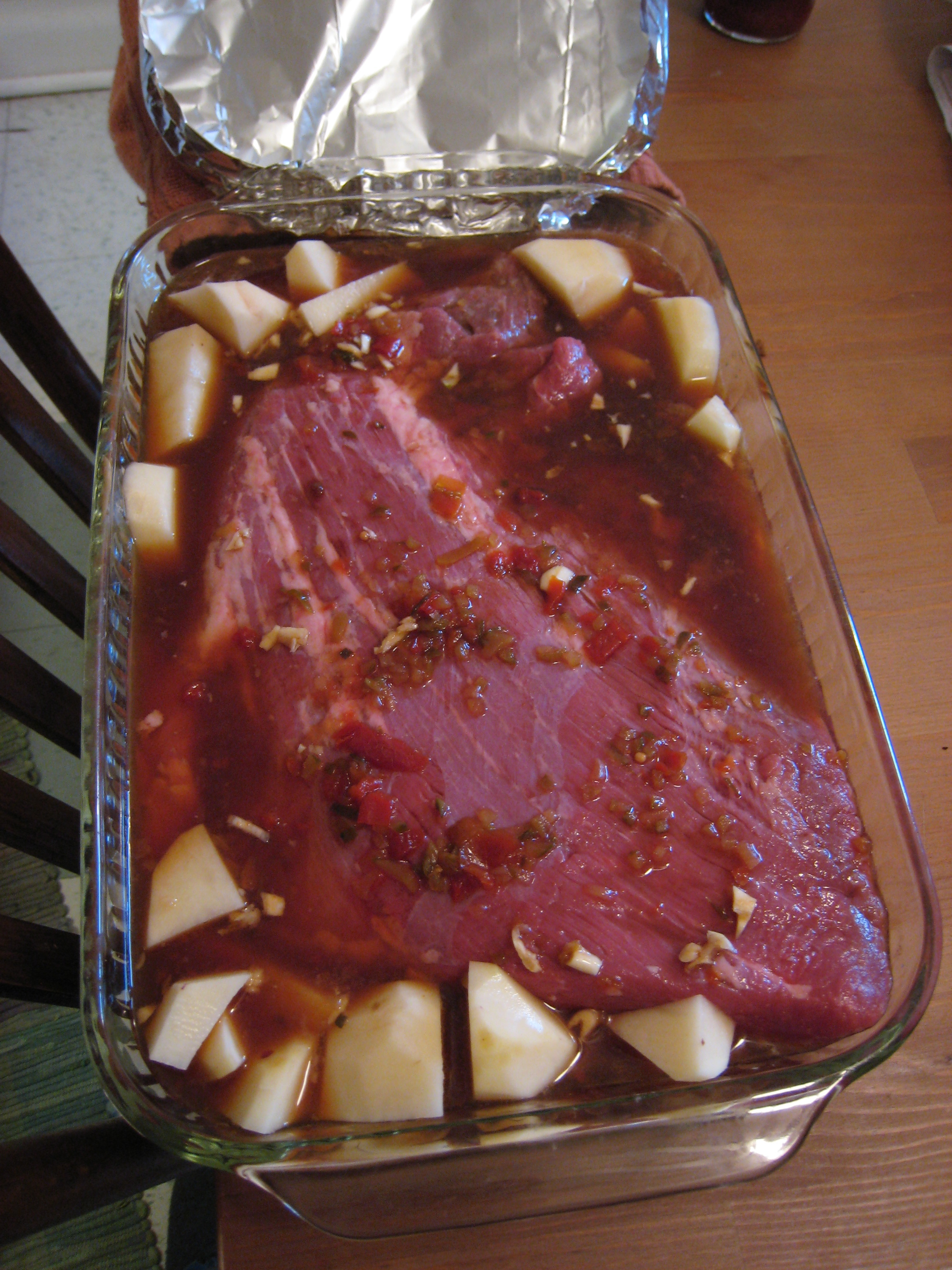 Traditional Jewish brisket being prepared for Passover.